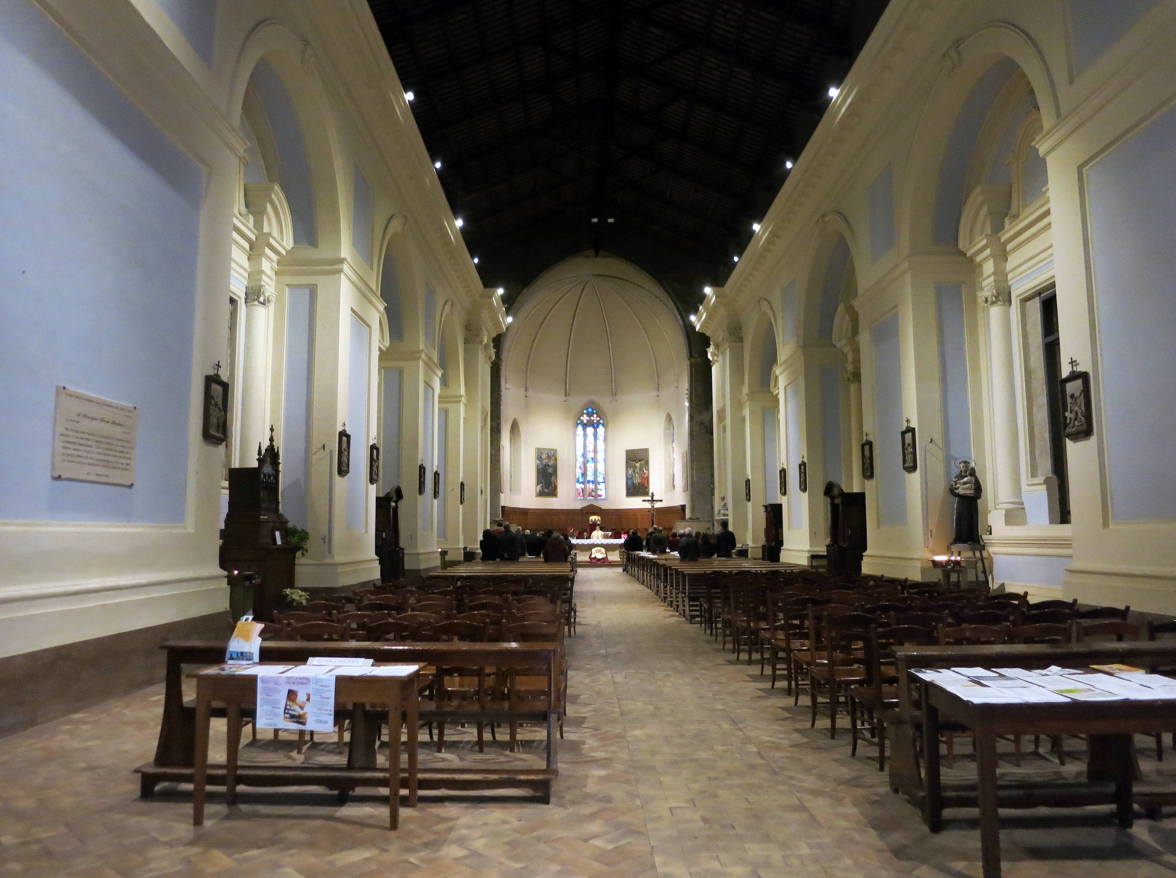 St. Augustine church - Rieti, Lazio, Italy